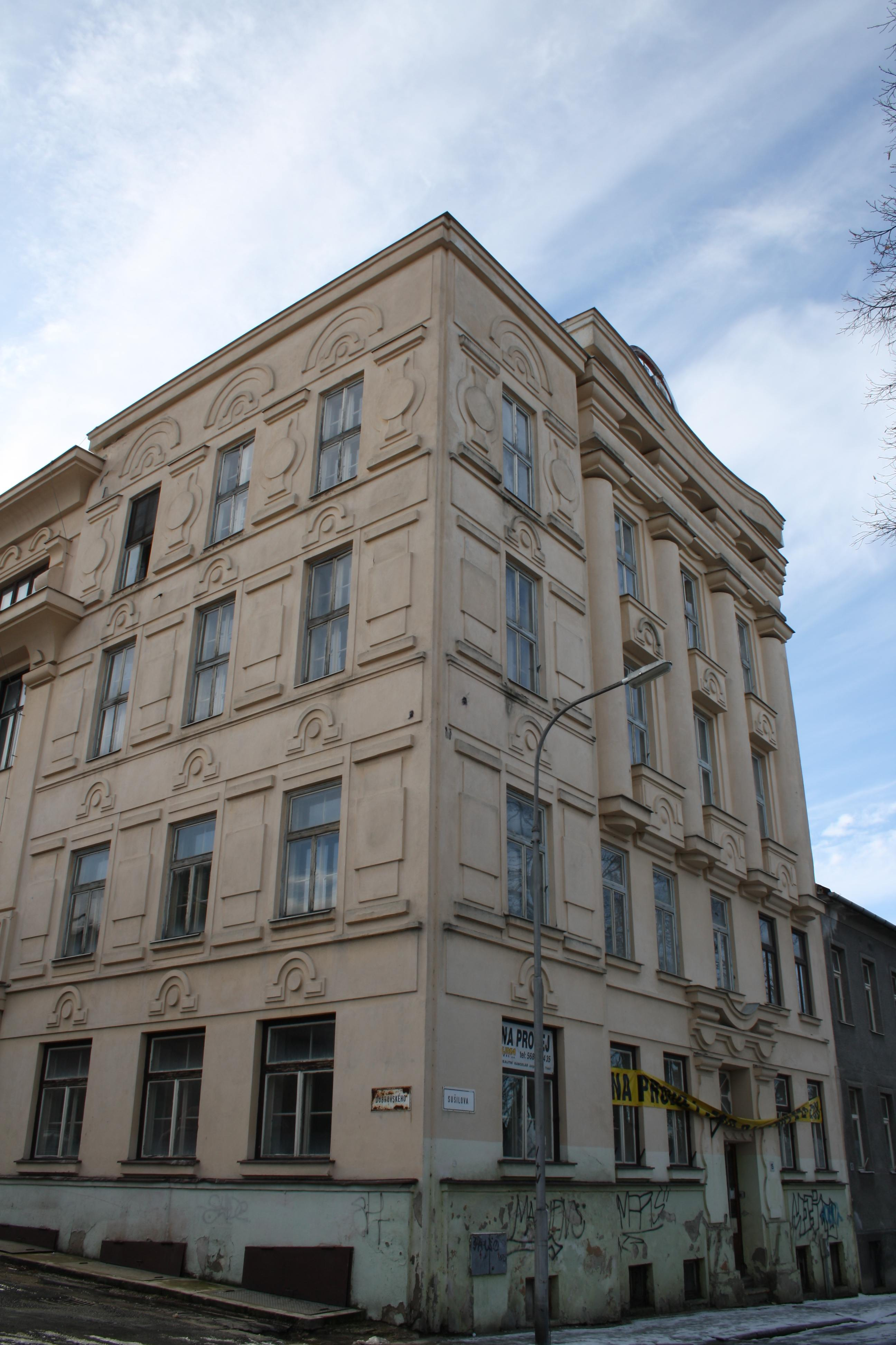 View from Riegrova street to UP factory - Tusculum.